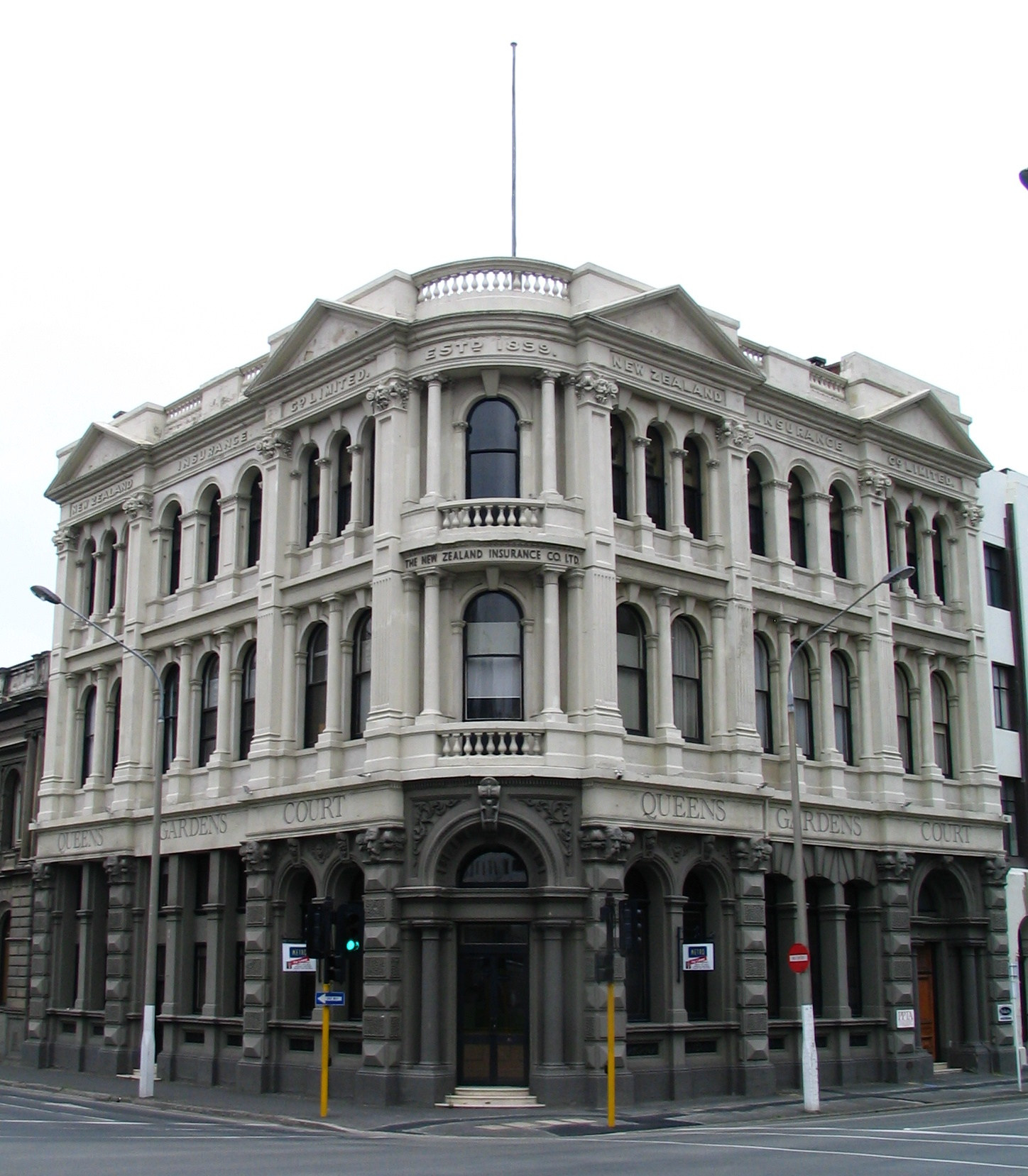 Queens Gardens Court / New Zealand Insurance Co. building, corner 49-51 Queens Gardens and 3-5 Crawford Street, Dunedin, New Zealand. New Zealand Historic Places Trust Register number: 4375.